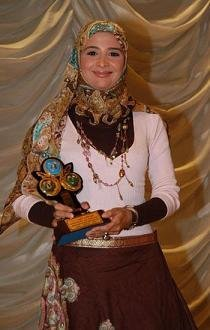 Egyptian Actress Hanan Turk مصرى: حنان ترك